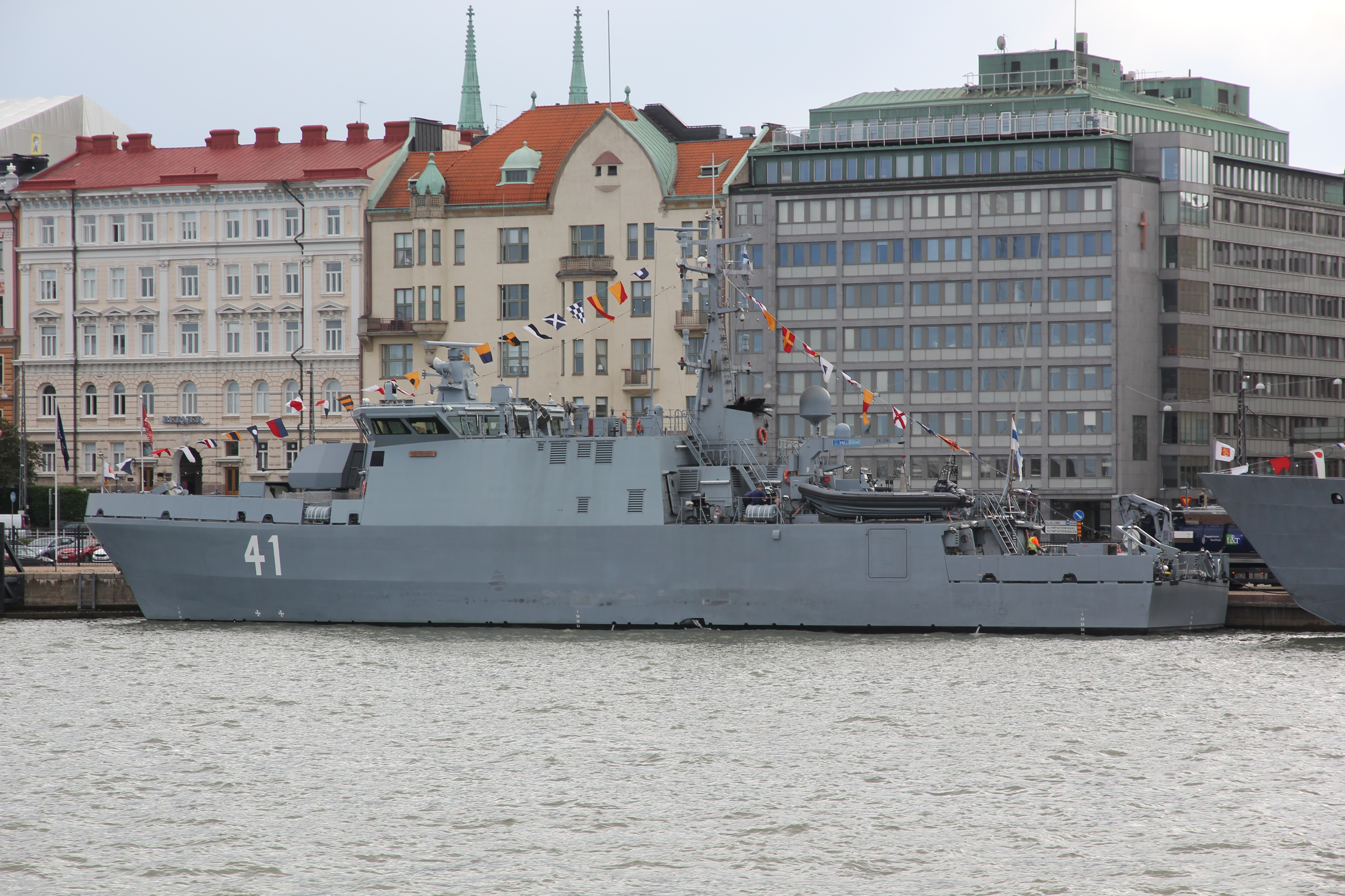 Mine countermeasure vessel Purunpää (41) in Helsinki South harbour during Finnish Navy 2015 anniversary.